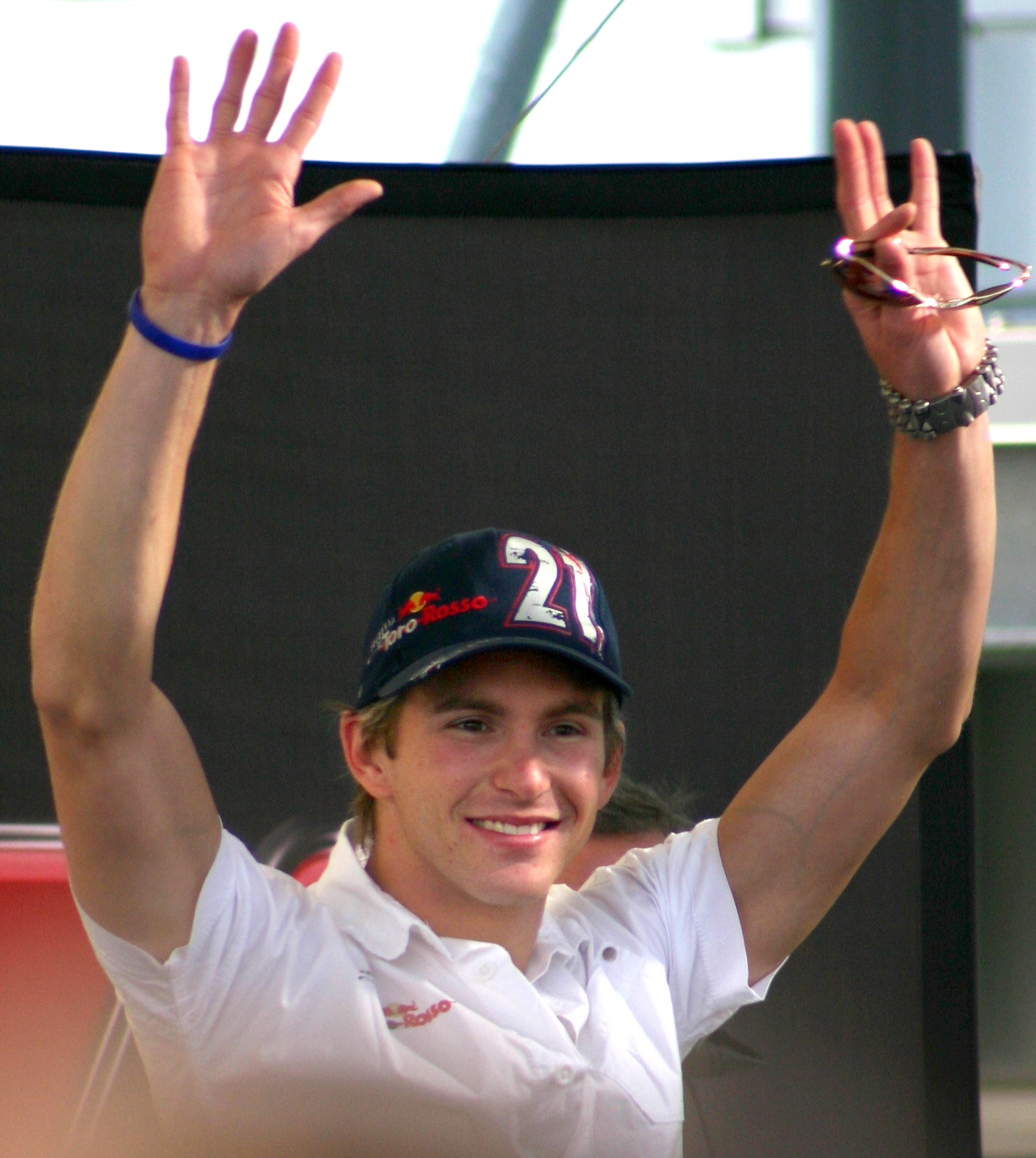 American Formula One driver Scott Speed at the 2006 United States Grand Prix, 6/29/2006.